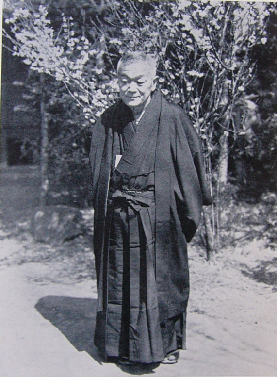 Naitō Torajirō (August 27, 1866–June 26, 1934), Photo in home garden, at 9th of April 1934, commonly known as Naitō Konan, a Japanese historian and Sinologist.